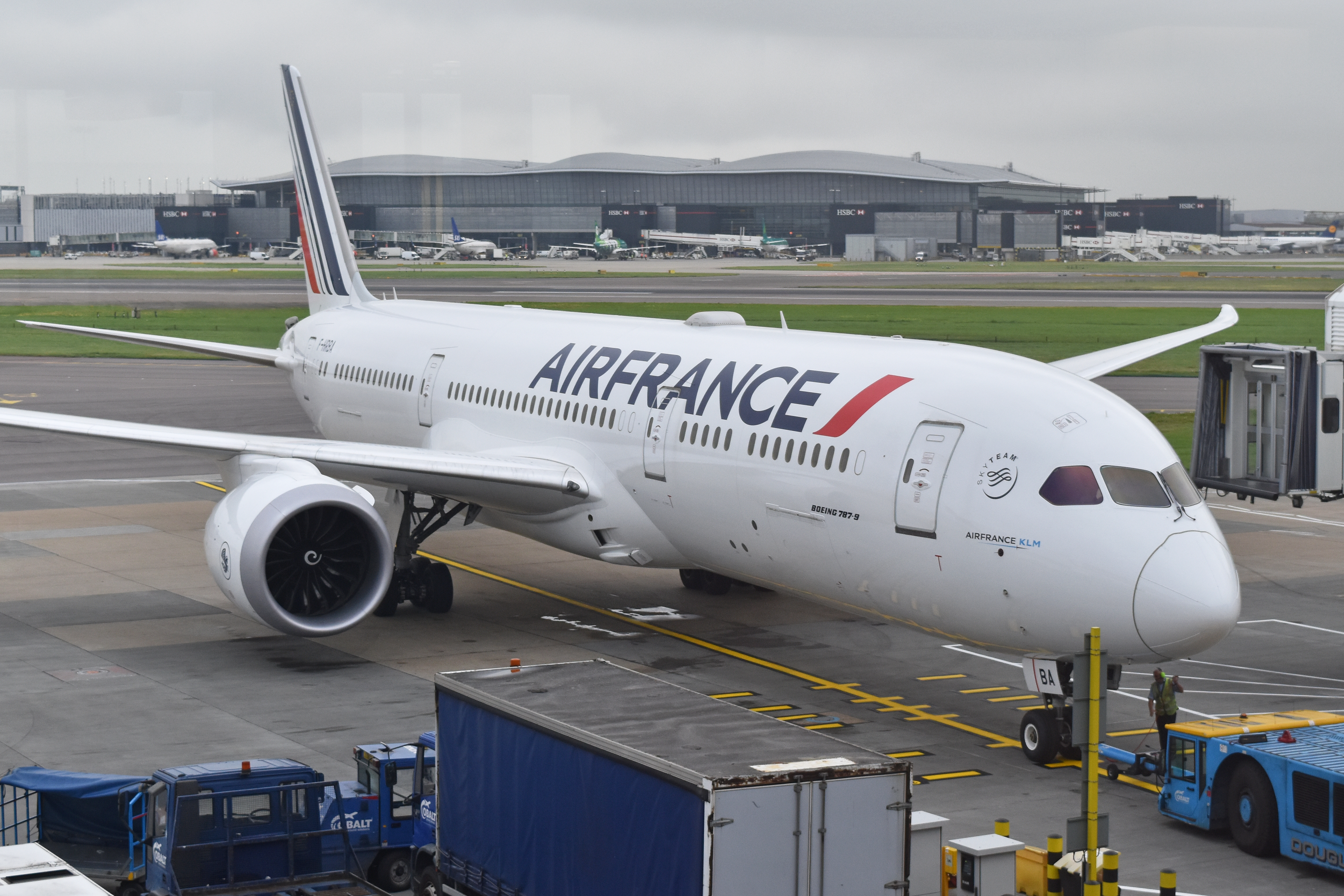 c/n 38769, l/n 500. Built 2016. Seen about to push back from a stand at Terminal 4, London Heathrow Airport. 22nd August 2017